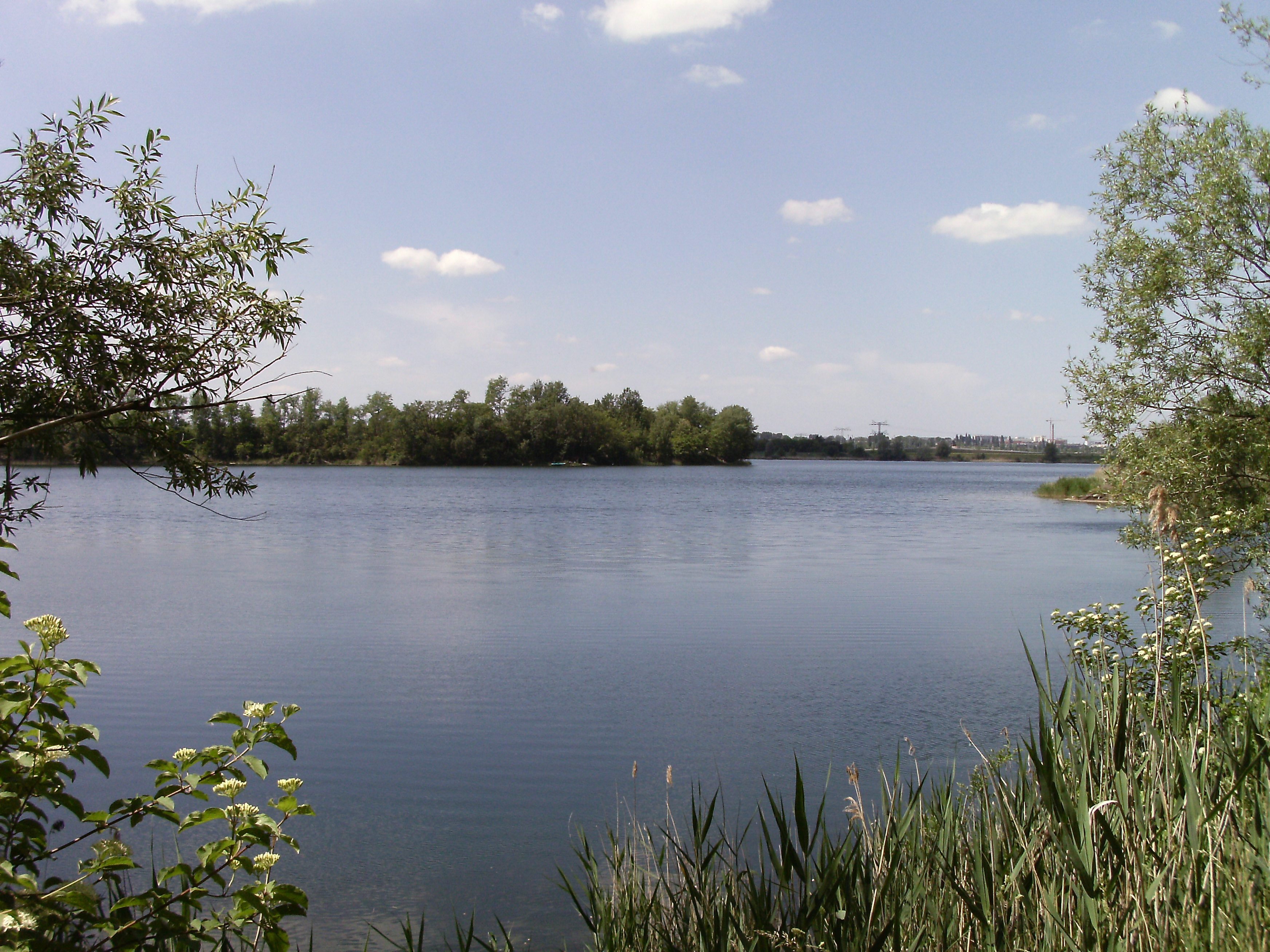 Hufeisensee ("horseshoe lake") in Halle/Saale from the north-east